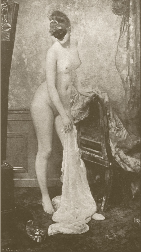 La Femme au Masque is a painting completed by Henri Gervex in 1885. It depicts the 22 year old Parisienne model Marie Renard wearing only a Domino masque. It was described a scandalous at its first public exhibition, and many women were cited/accused/scandalised/distrusted/misogynised as the model over the following years, the most high profile being Camille du Gast where it was the subject of a court case in 1902.